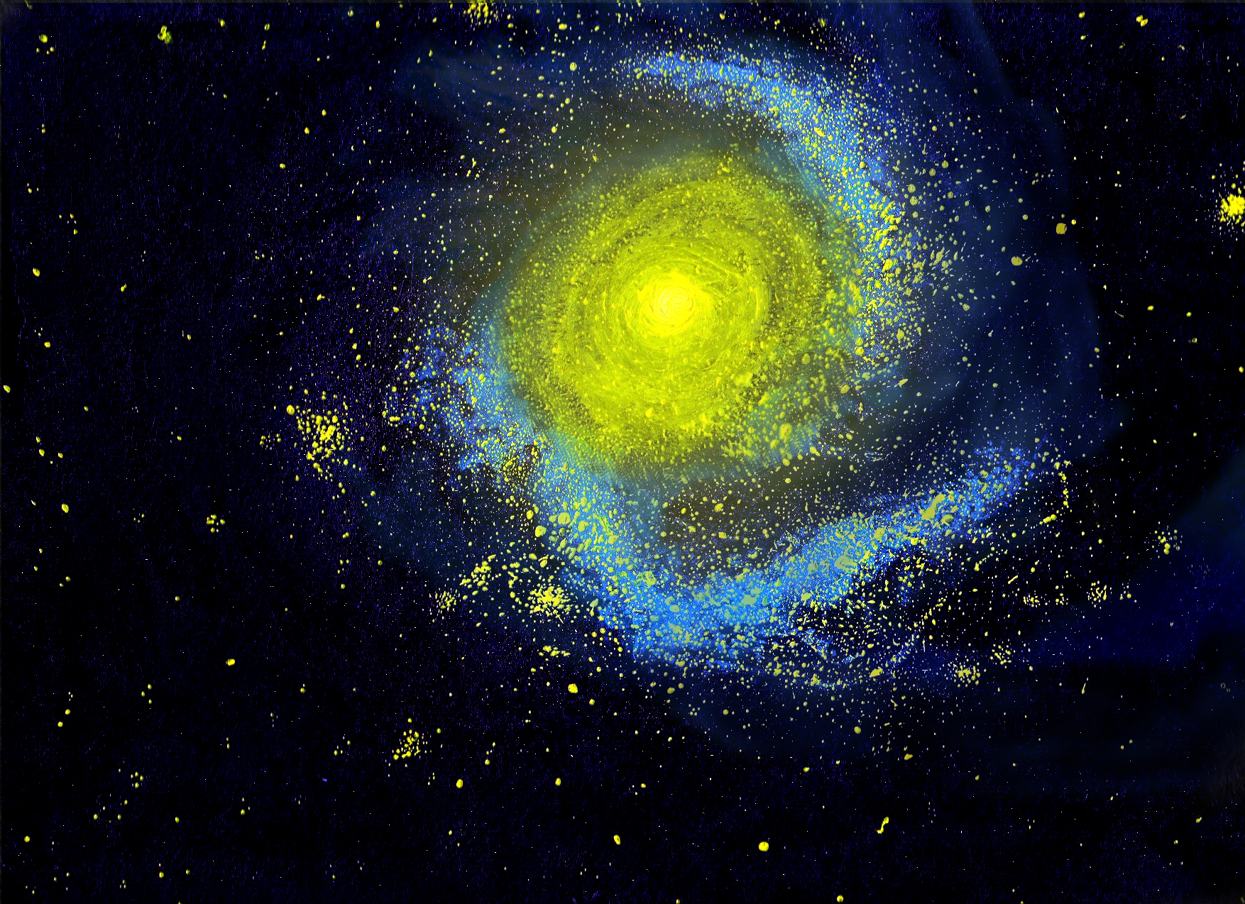 A clear picture of NGC 60 as done by me. You can compare this drawing to the DSS2 image at